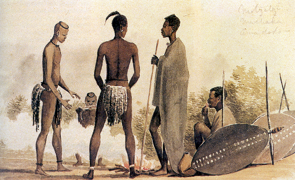 Ndebele (i.e. Matabele) warriors. The artist, Charles Bell, visited Mzilikazi in 1835 and his waterpainting, titled "Our Zoola Guard of Honour" accentuates the descent of the Ndebele. The headrings and the size of the shields are of Zulu origin.